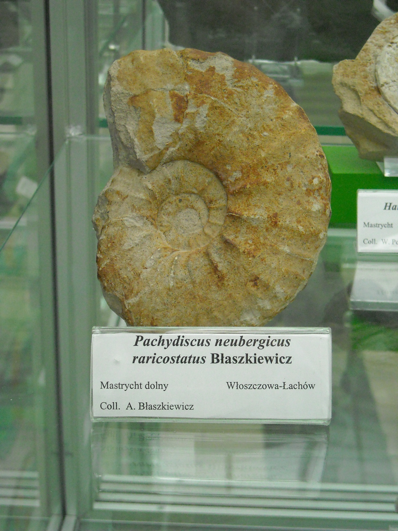 Fossil of Pachydiscus neubergicus - a pachydiscid ammonite. This specimen comes from Lower Maastrichtian of Poland.